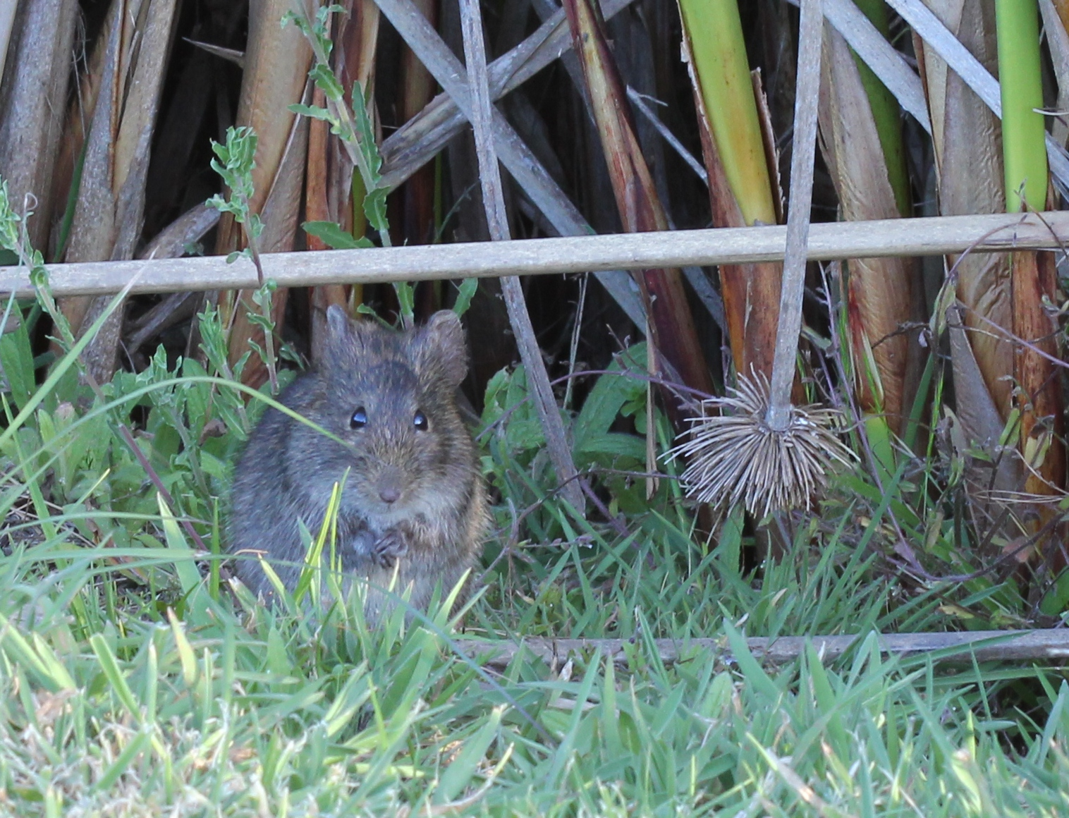 Otomys irroratus pausing in grazing on grass next to reed-fringed dam.